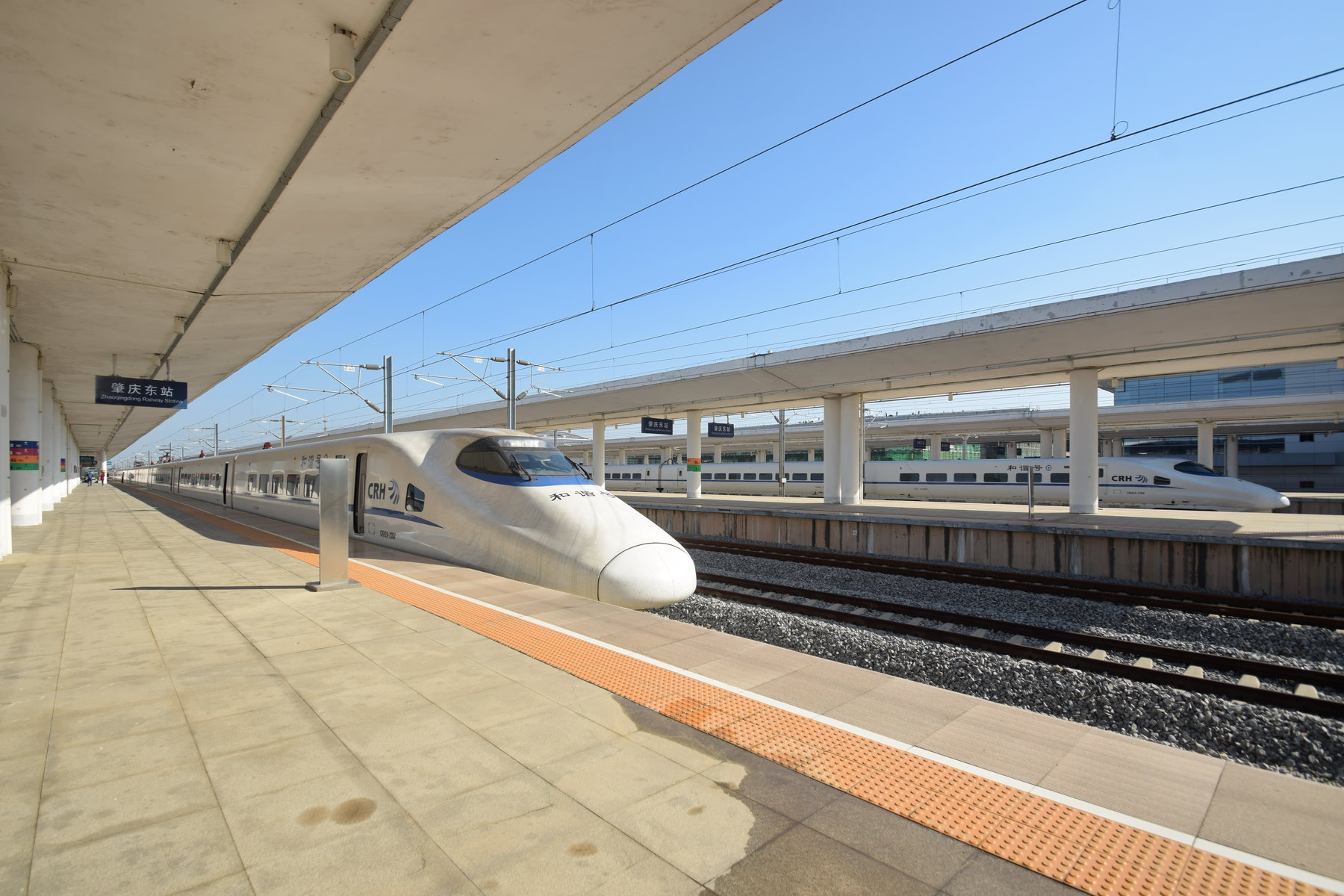 D2834 CRH2A-2304 EMU (left) and D3722 CRH2A-2368 EMU were stopping at Zhaoqing Dong (East) Railway Station, view towards Sanshui Nan (South) Railway Station.